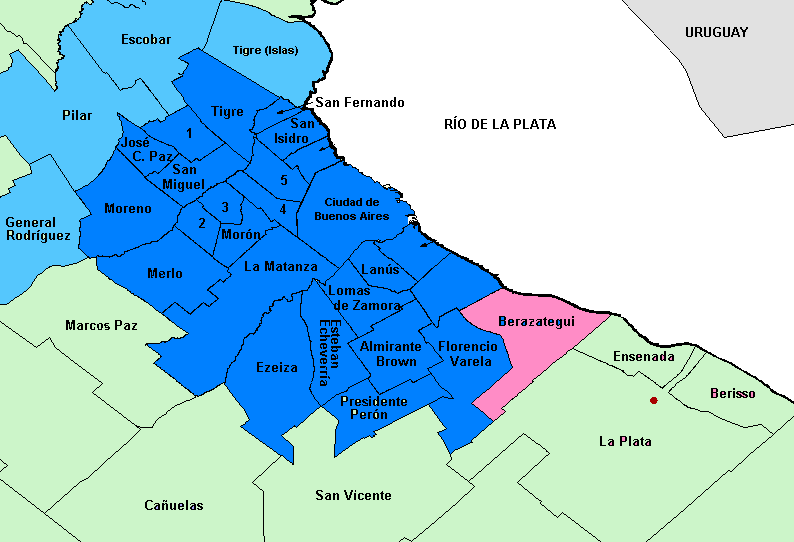 Área servicio de Aysa